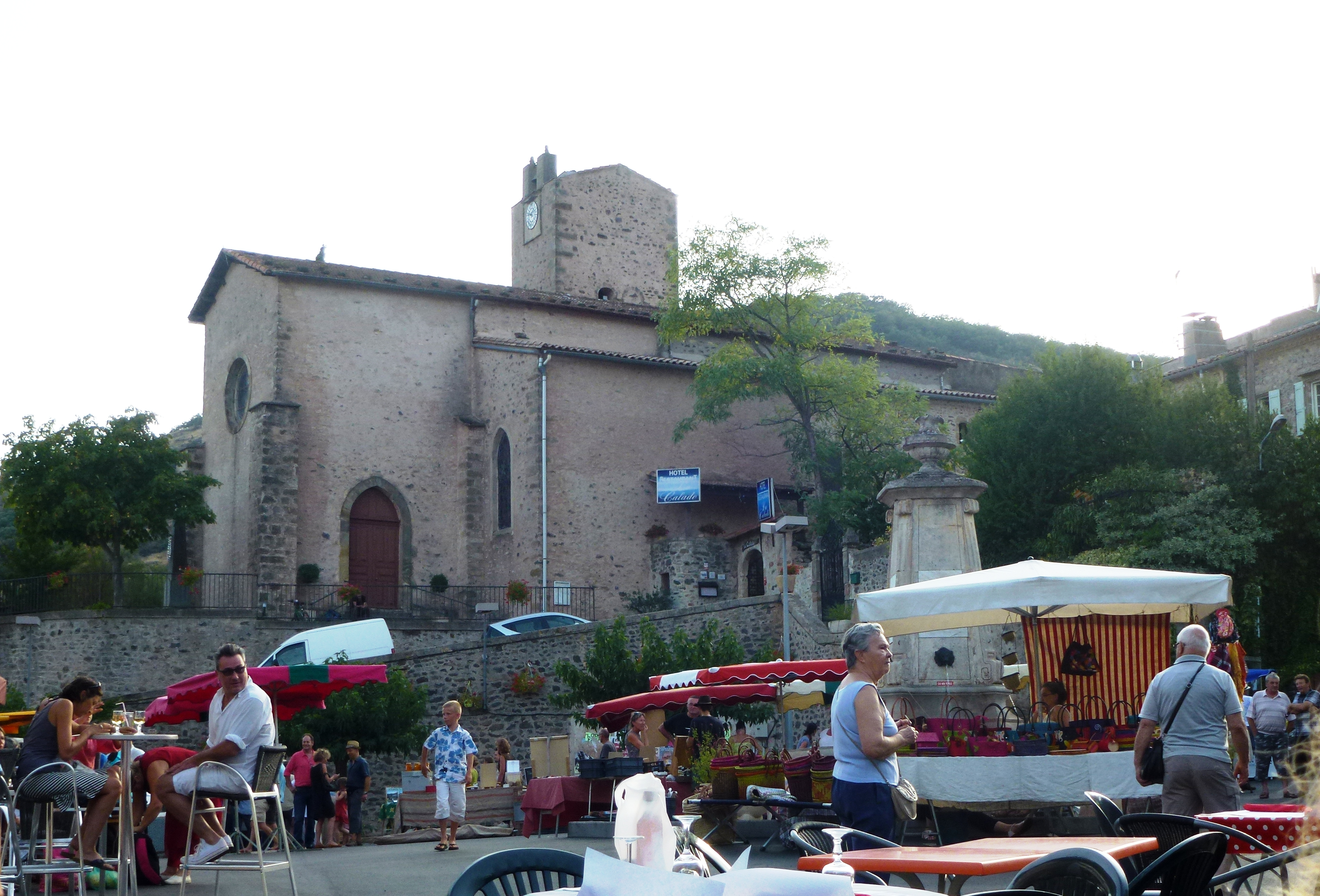 Church in Octon, Southern France